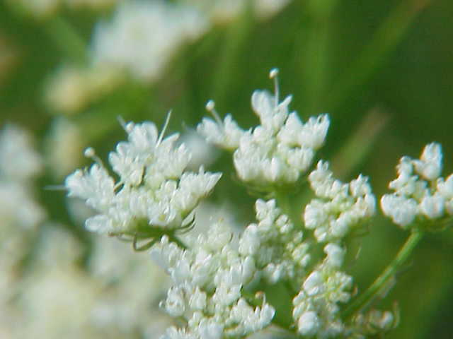 Species: Oenanthe pimpinelloides Family: Apiaceae Image No. 1